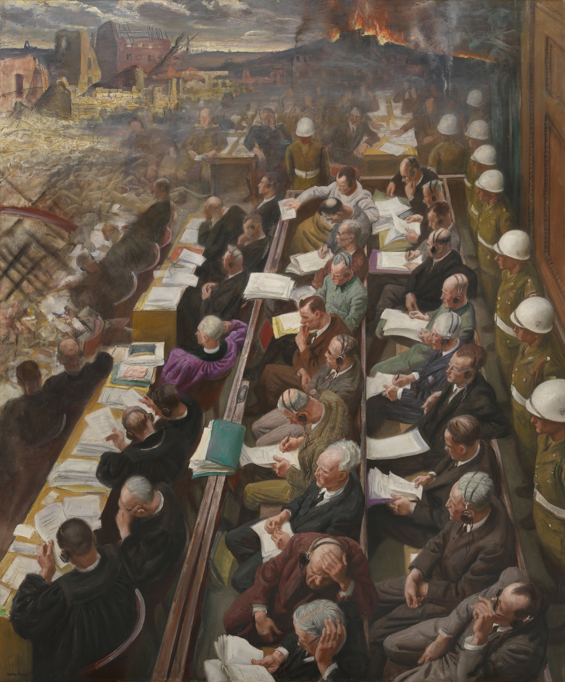 The defendents are shown sitting on two benches with a line of military police behind them and a row of lawyers in front of them. The rear and left walls of the court room are missing to show the rubble and bomb damage of the surrounding city.